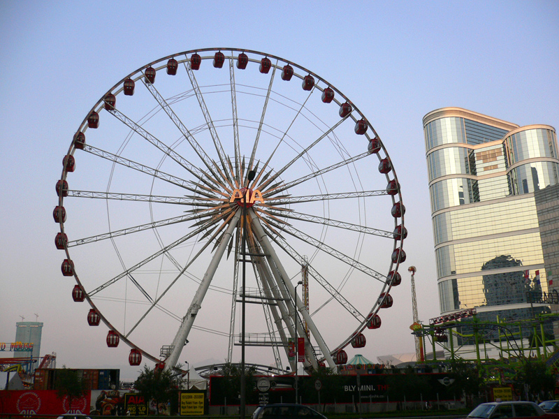 Hong Kong World Carnival 2006, as seen in Tamar Site, Admiralty, Hong Kong